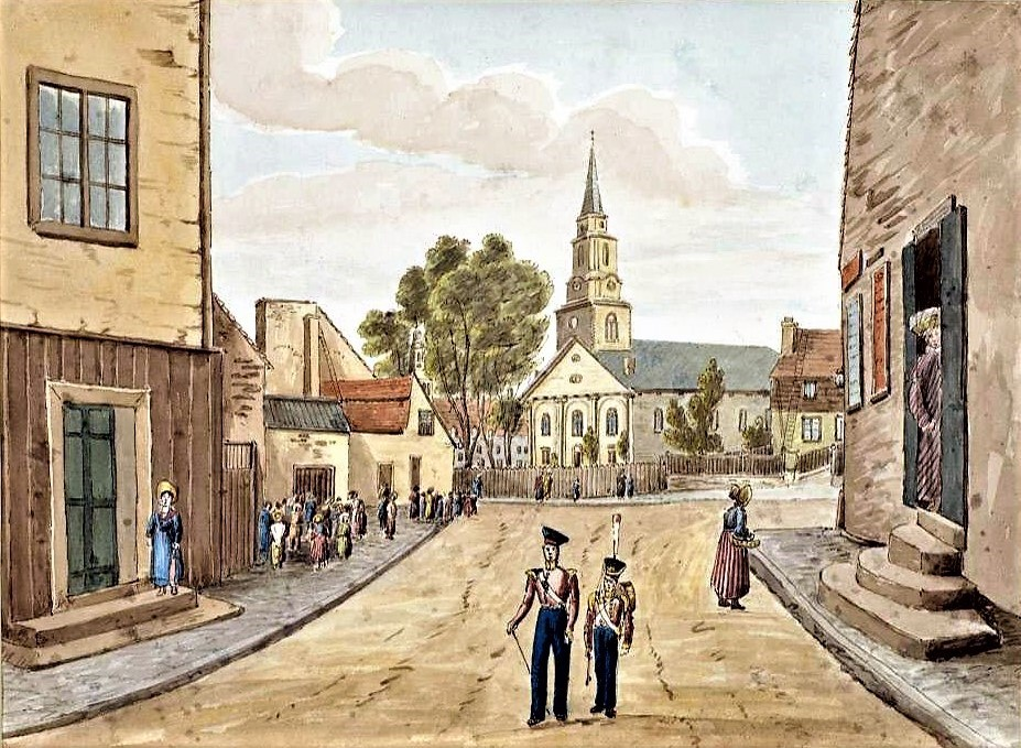 The English Church from the Ursuline Conventview of Québec City, Québec, Canada Watercolour, pen and ink over pencil, on paper, 25.7 × 34.9 cm